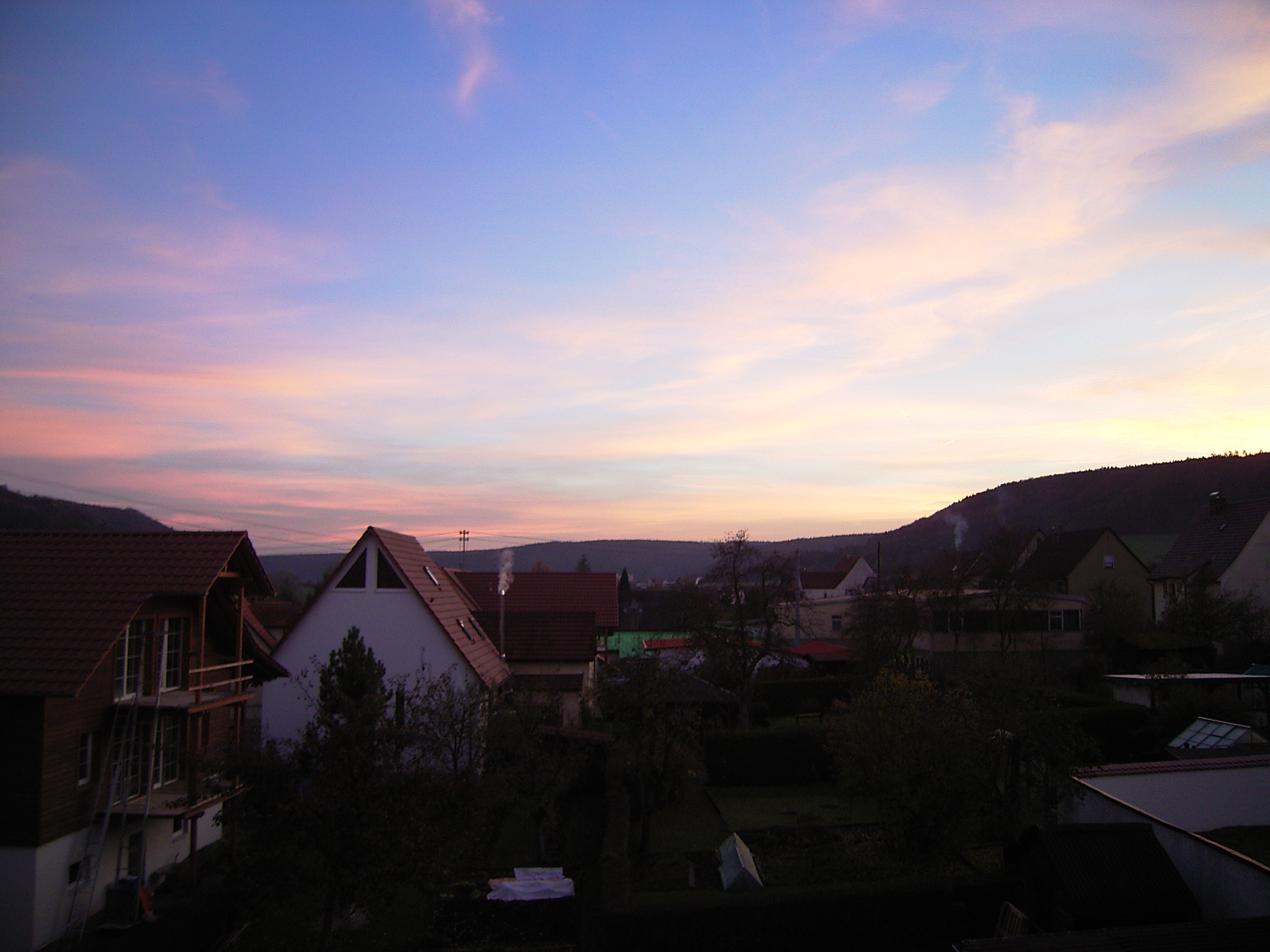 Sunset in Weilheim